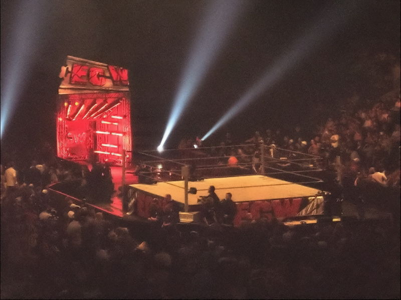 I took this picture at the May 29, 2007 SmackDown!/ECW taping at the John Labatt Centre in London, Ontario.